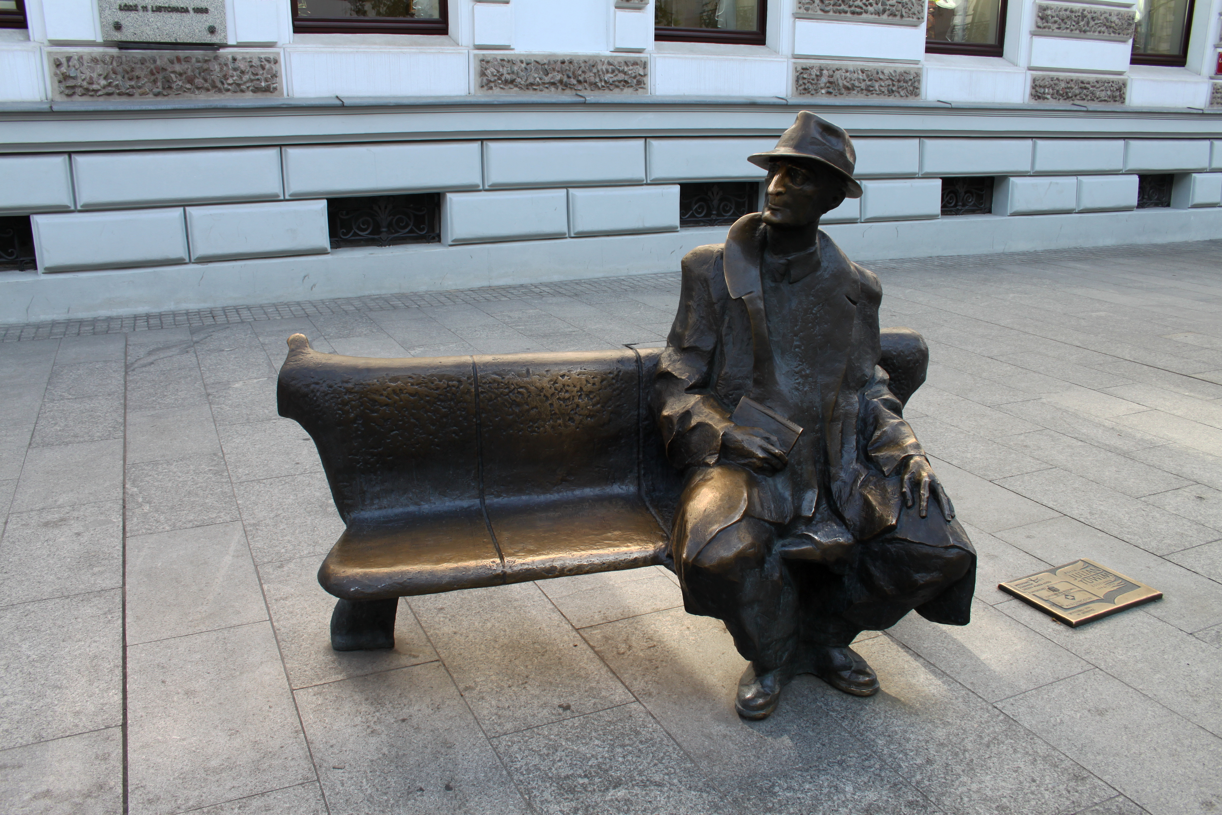 Tuwim's Bench (July 2018)